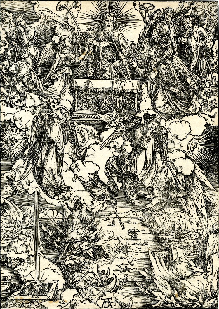 The opening of the seventh seal and the eagle crying 'Woe'